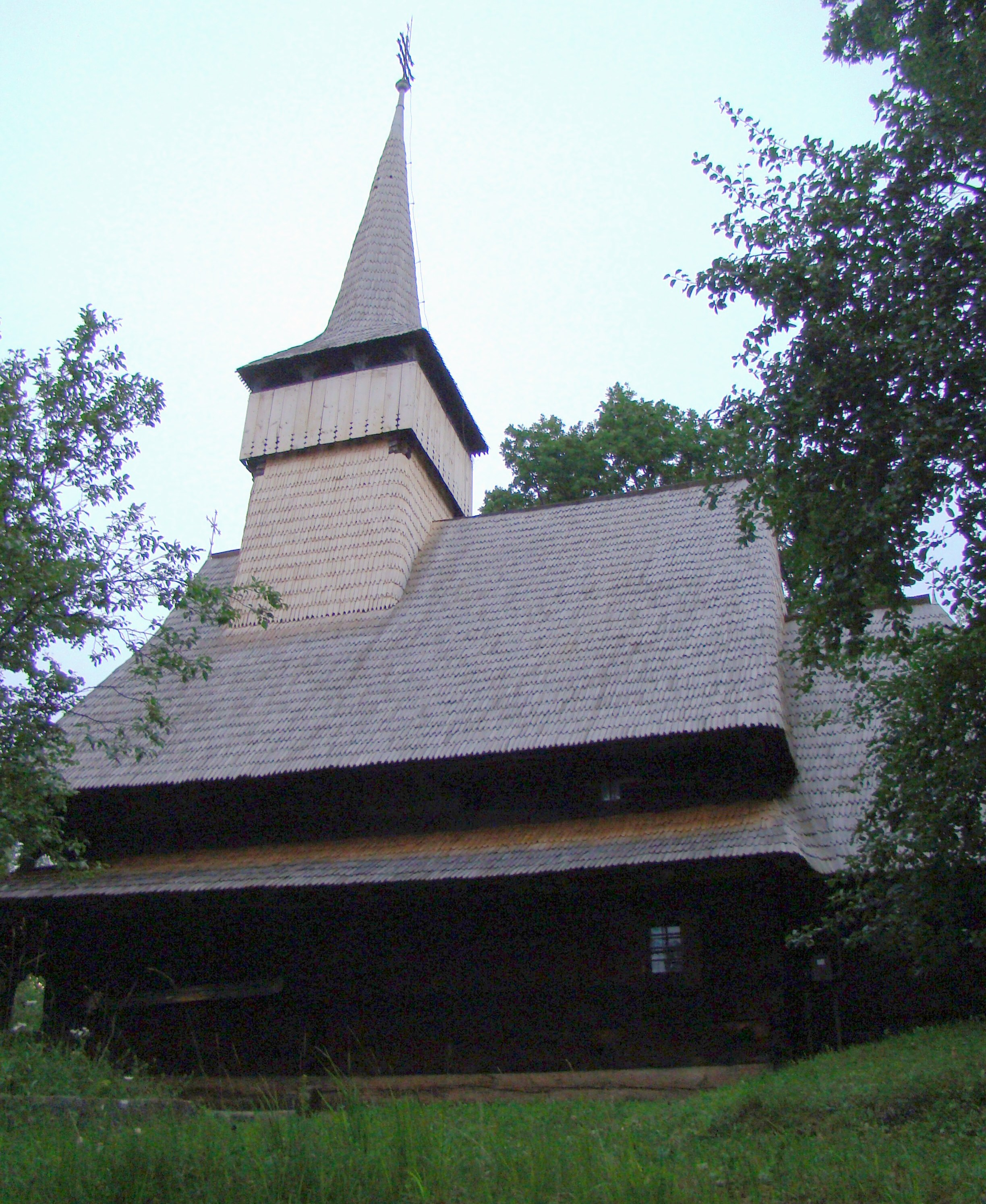 wooden church of Ferești village, Maramureș, Romania